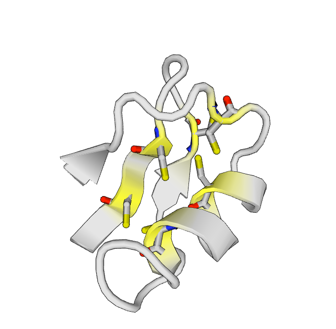 The 3D represantation of the ImKTx88 protein.